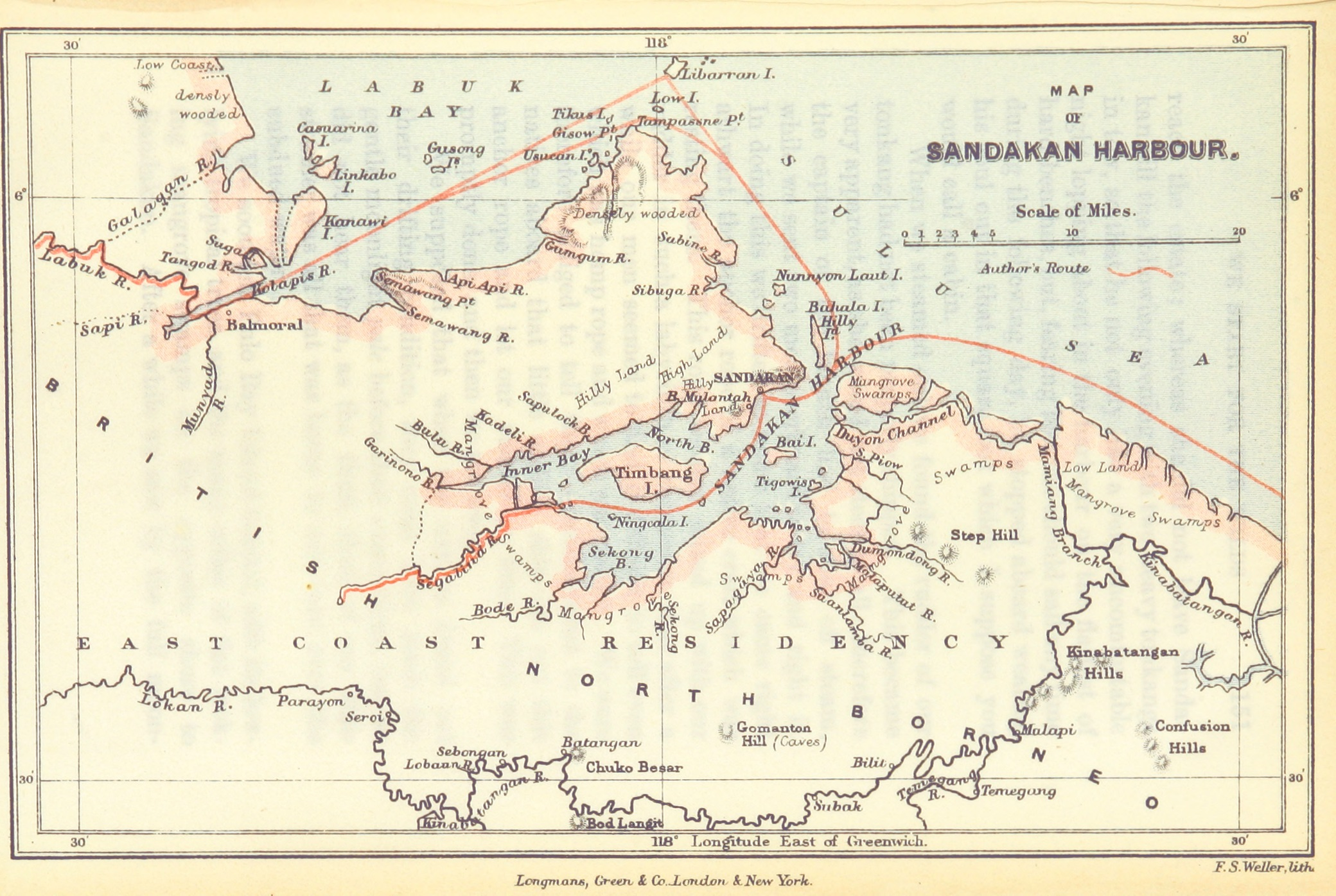 View this map on the BL Georeferencer service. Image taken from: Title: "About Ceylon and Borneo ... With ... illustrations and ... maps" Author: CLUTTERBUCK, Walter J. Shelfmark: "British Library HMNTS 010055.de.1." Page: 177 Place of Publishing: London Date of Publishing: 1891 Publisher: Longmans & Co. Issuance: monographic Identifier: 000728975 Explore: Find this item in the British Library catalogue, 'Explore'. Download the PDF for this book (volume: 0) Image found on book scan 177 (NB not necessarily a page number) Download the OCR-derived text for this volume: (plain text) or (json) Click here to see all the illustrations in this book and click here to browse other illustrations published in books in the same year. Order a higher quality version from here.